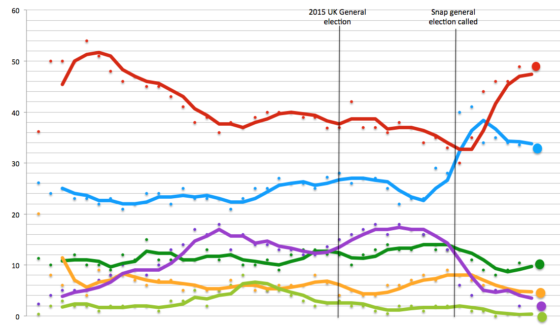 Welsh opinion polling (since 2010) for the 2015 and 2017 UK general elections.